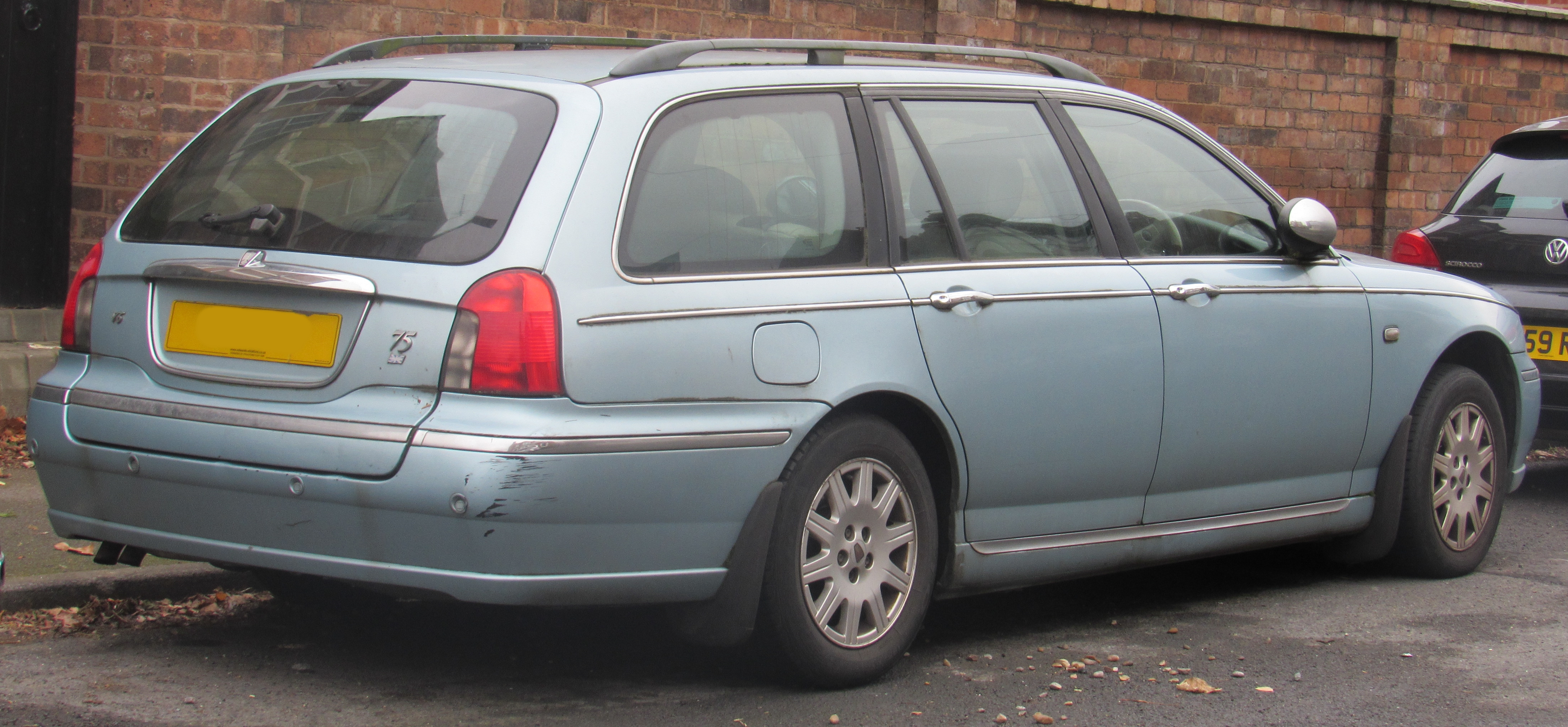 2002 Rover 75 Connoisseur SE Tourer 2.5 Rear Taken in Leamington Spa